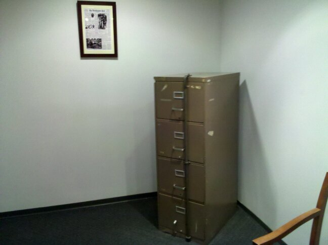 A filing cabinet with damage from the Watergate burglaries on display at Democratic National Committee office, South Capitol Street, Washington, DC, USA